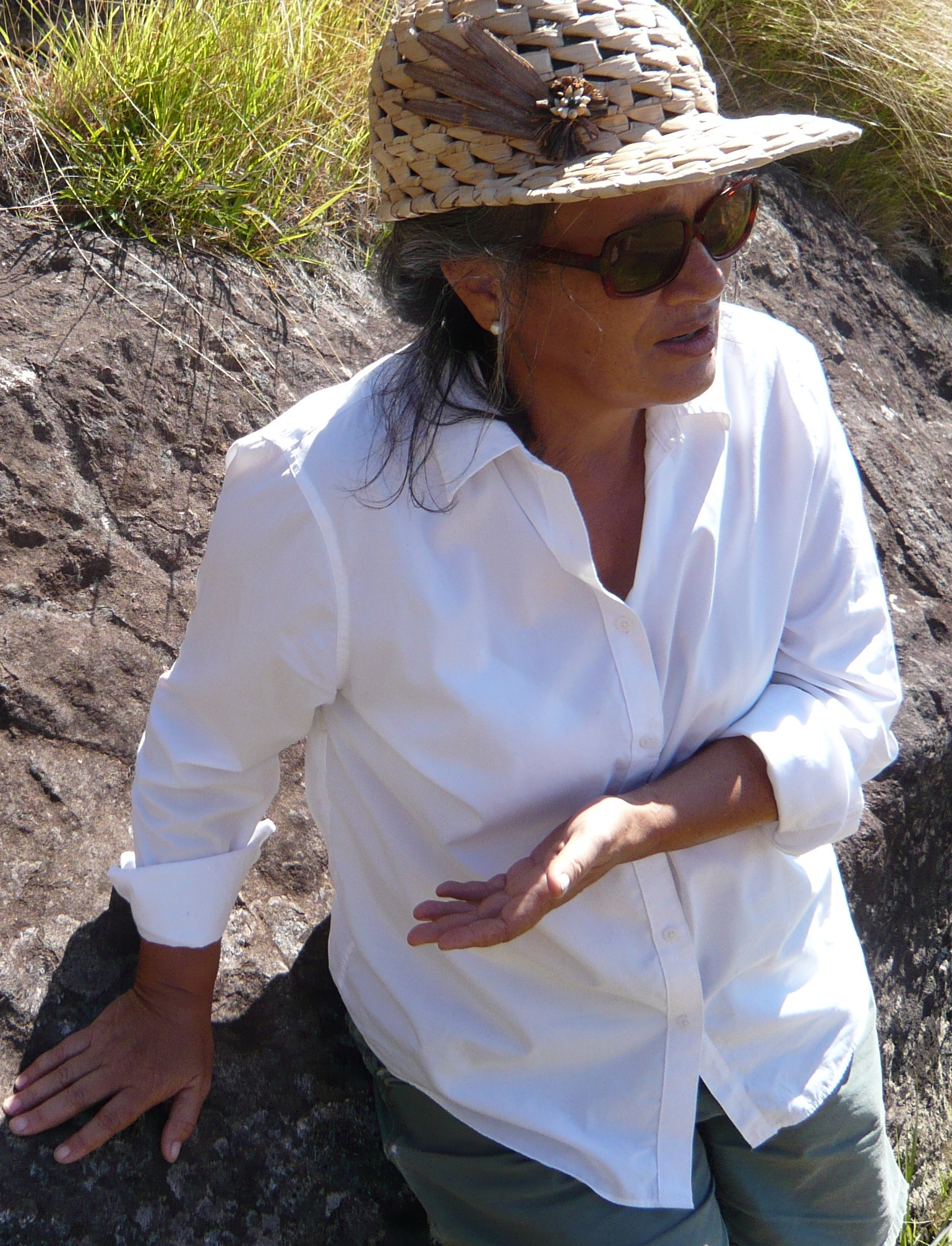 Archaeologist Sonia Haoa Cardinali at petroglyphs in Poike, Rapa Nui (Easter Island), in 2017.